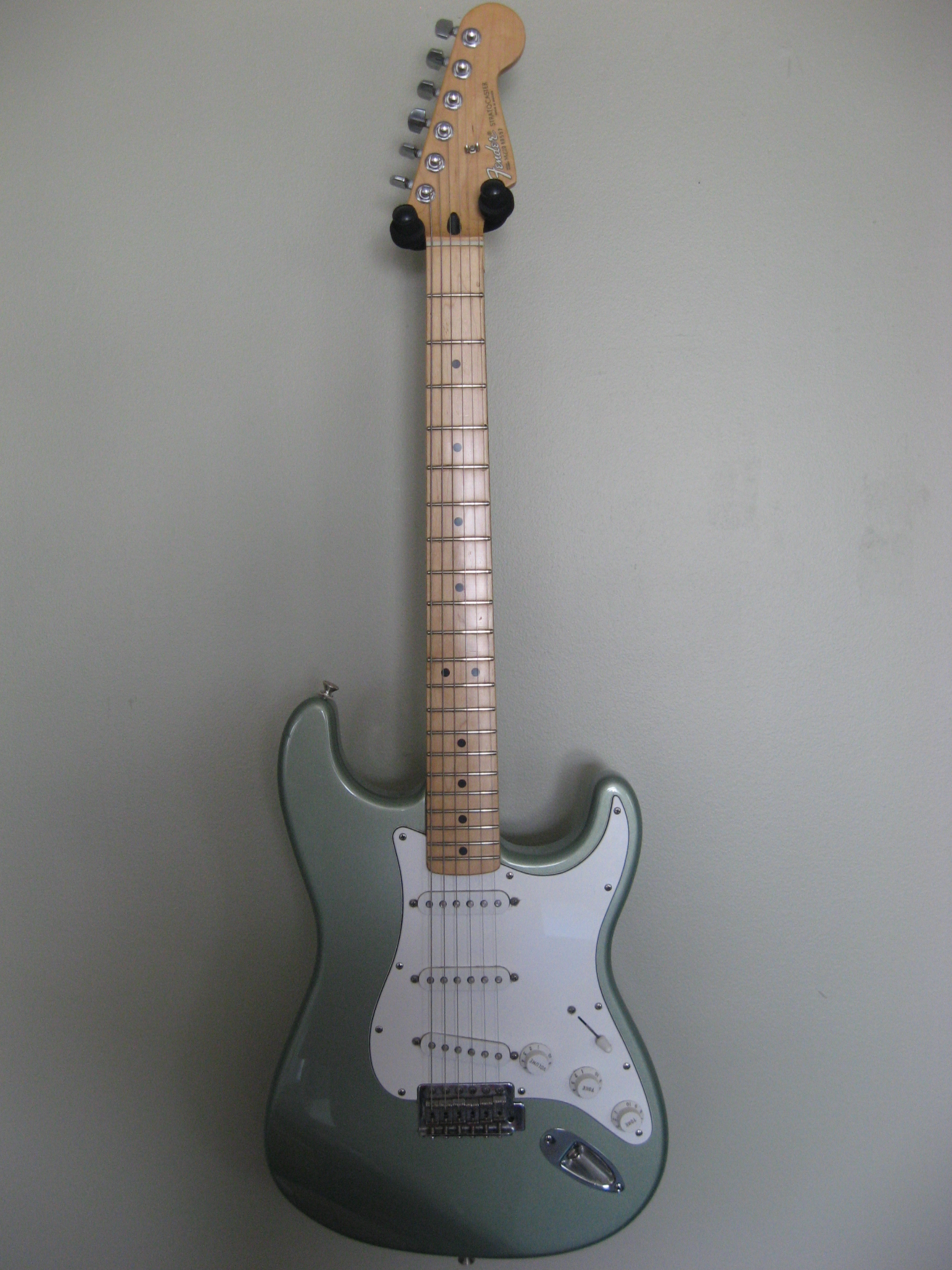 High quality photo of a Fender Stratocaster